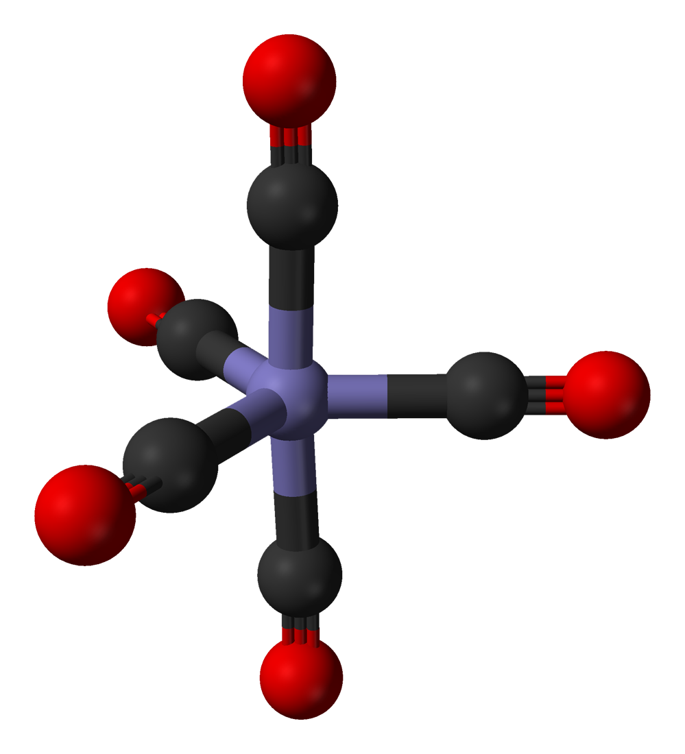 Ball-and-stick model of the iron pentacarbonyl molecule, Fe(CO)5, as found in the crystalline solid. X-ray crystallographic data from J. Donohue, A. Caron (1964). "The crystal structure of iron pentacarbonyl: space group and refinement of the structure". Acta Cryst. 17: 663-667. Model constructed in CrystalMaker 8.1. Image generated in Accelrys DS Visualizer.